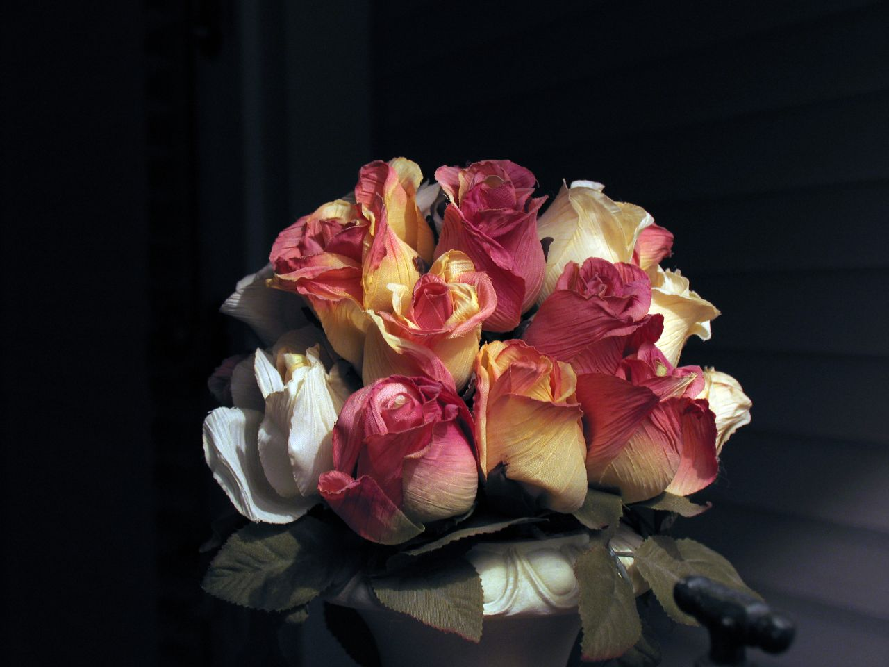 "Just some fake flowers at grandma's house."